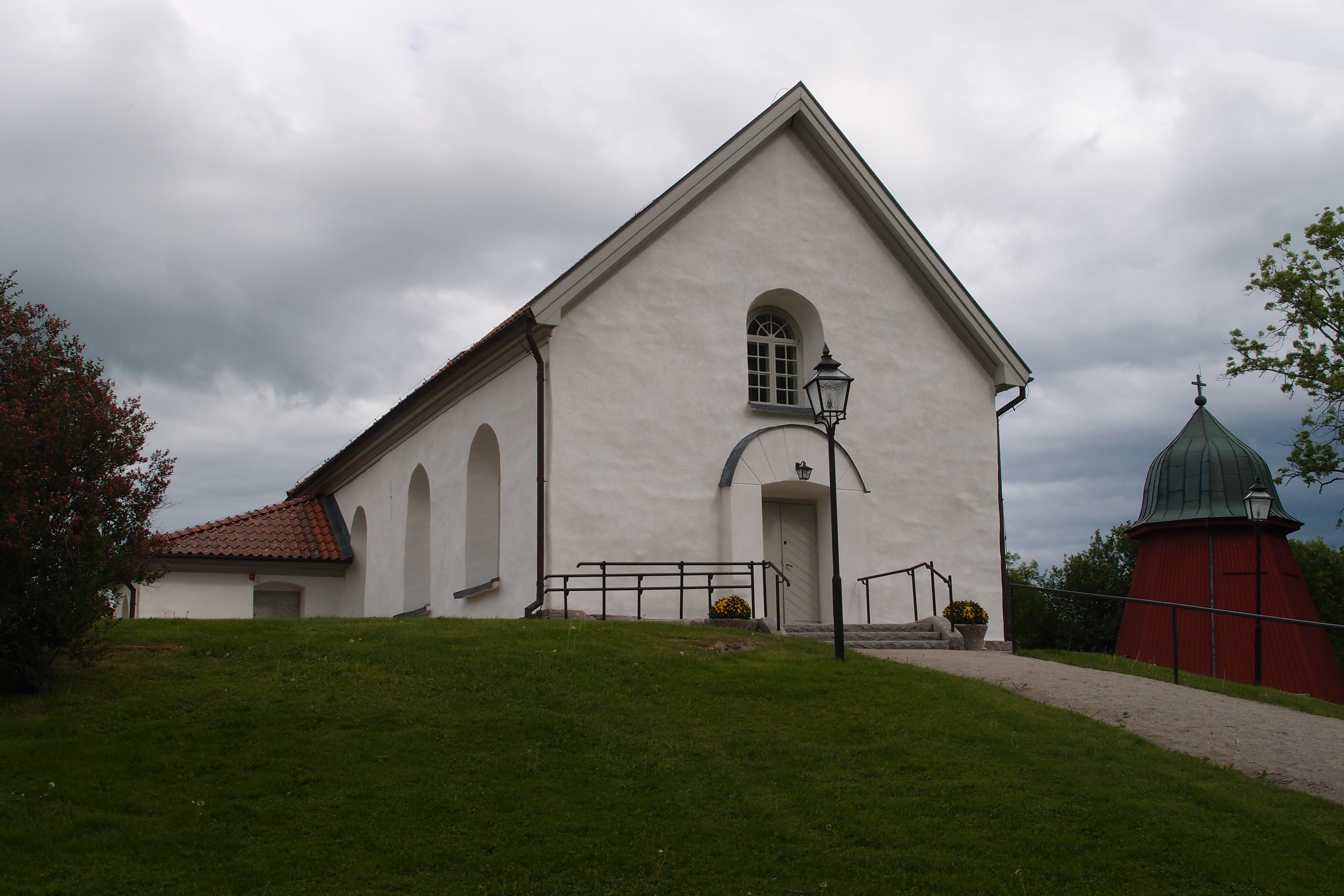 Tärby Church